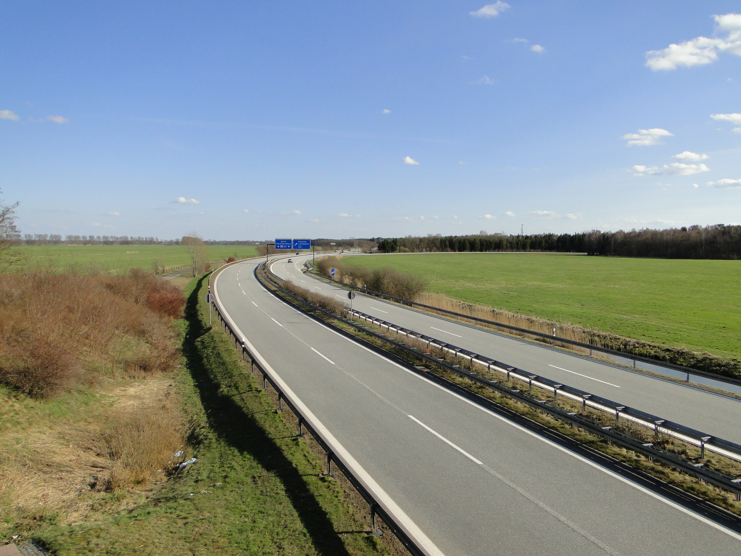 Highway A 14 at interchange Schwerin in Wöbbelin, disctrict Ludwigslust, Mecklenburg-Vorpommern, Germany